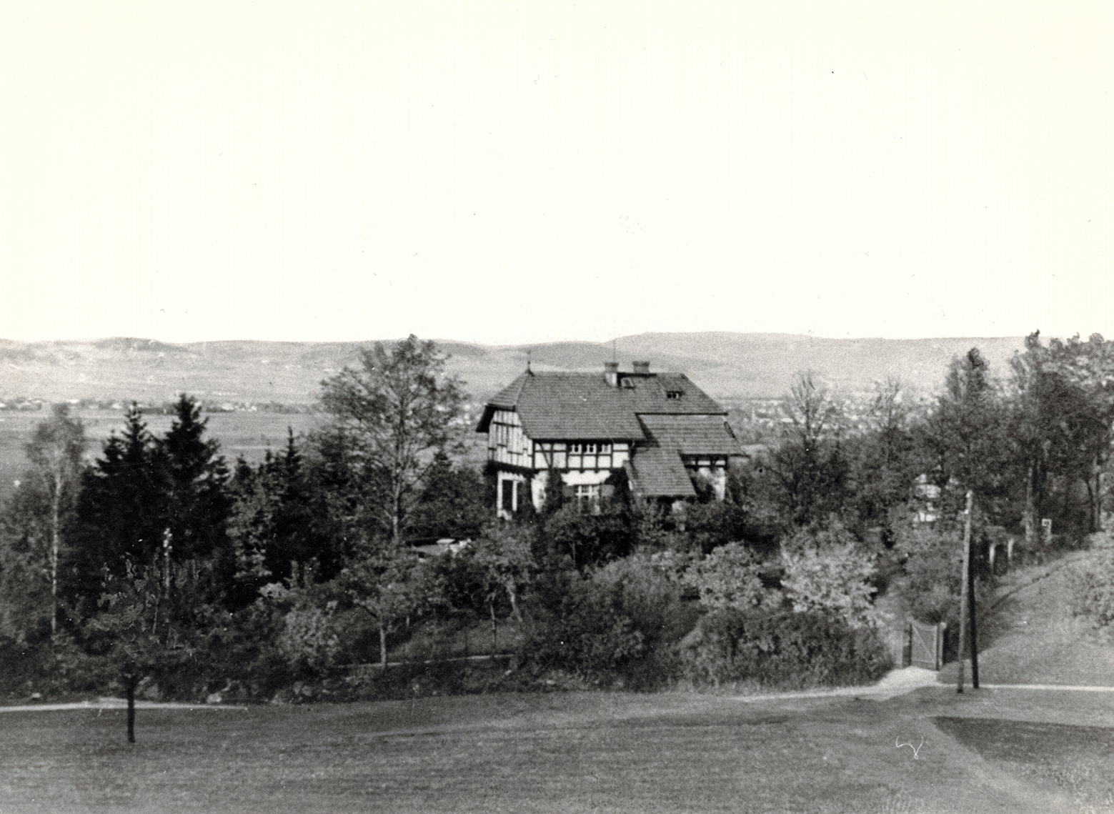 Summerhouse in Saalberg/Zachełmie, built in 1900. Photo from 1930